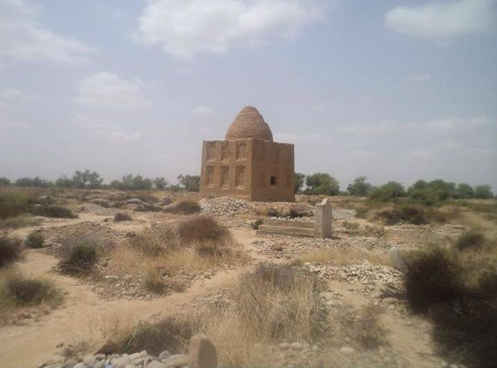 Khajjak Graveyard